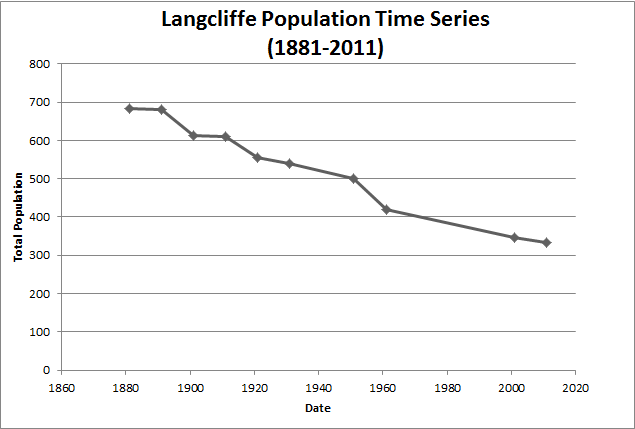 Graph